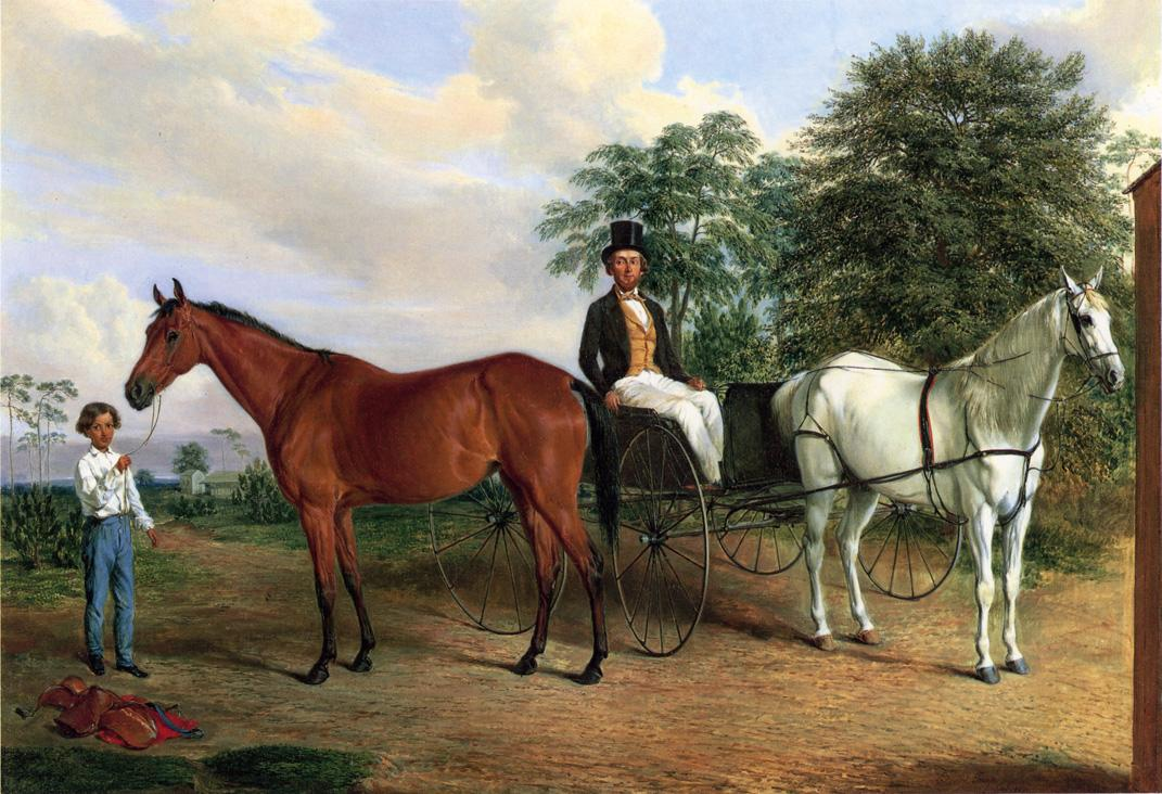 "Self Portrait in a Carriage," oil on canvas, by the Swiss-American artist Edward Troye. Courtesy of the Yale University Art Gallery, New Haven, Connecticut.